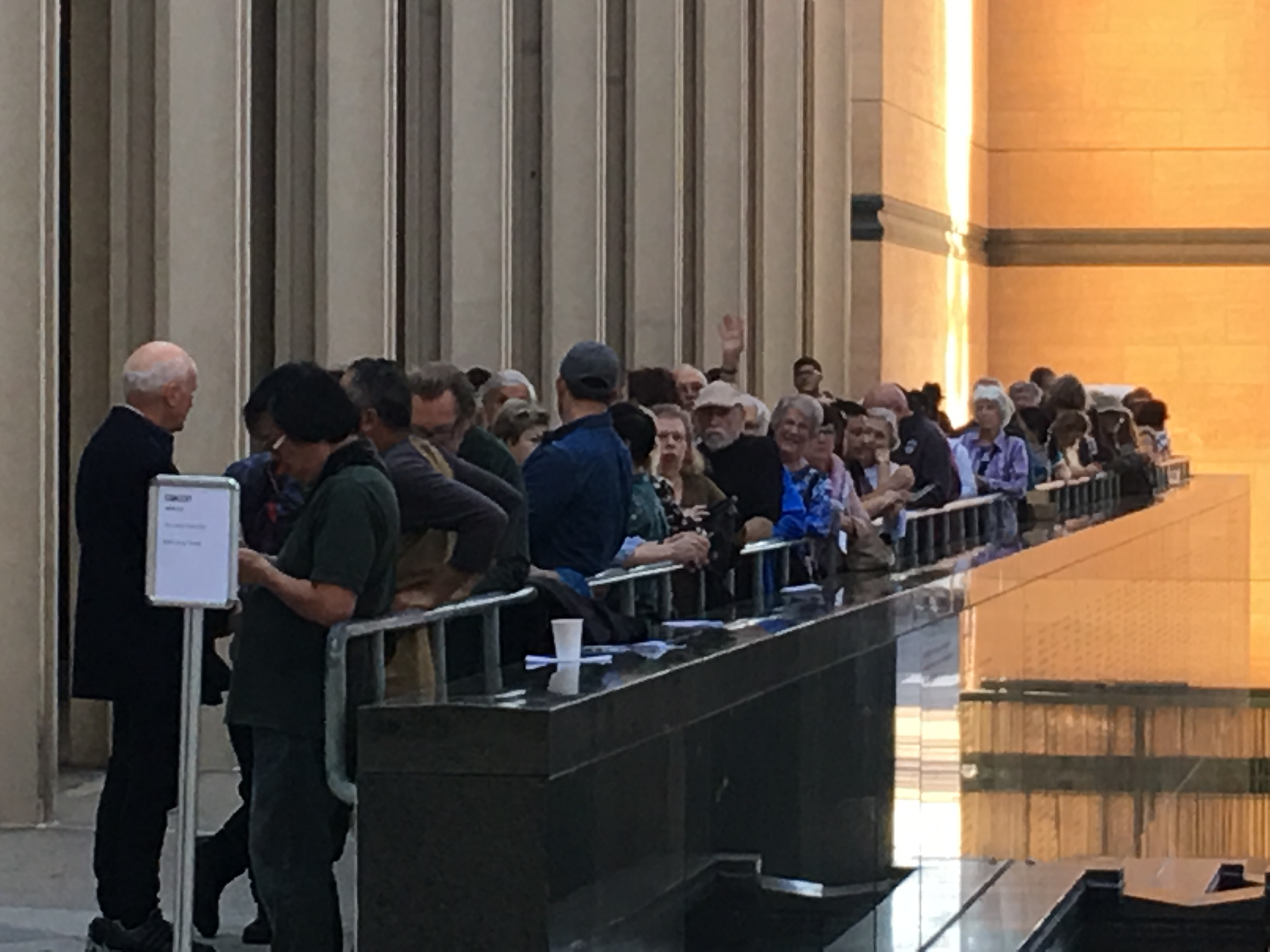 Ticket Line at the LACMA before „The Latsos“ recital in Los Angeles